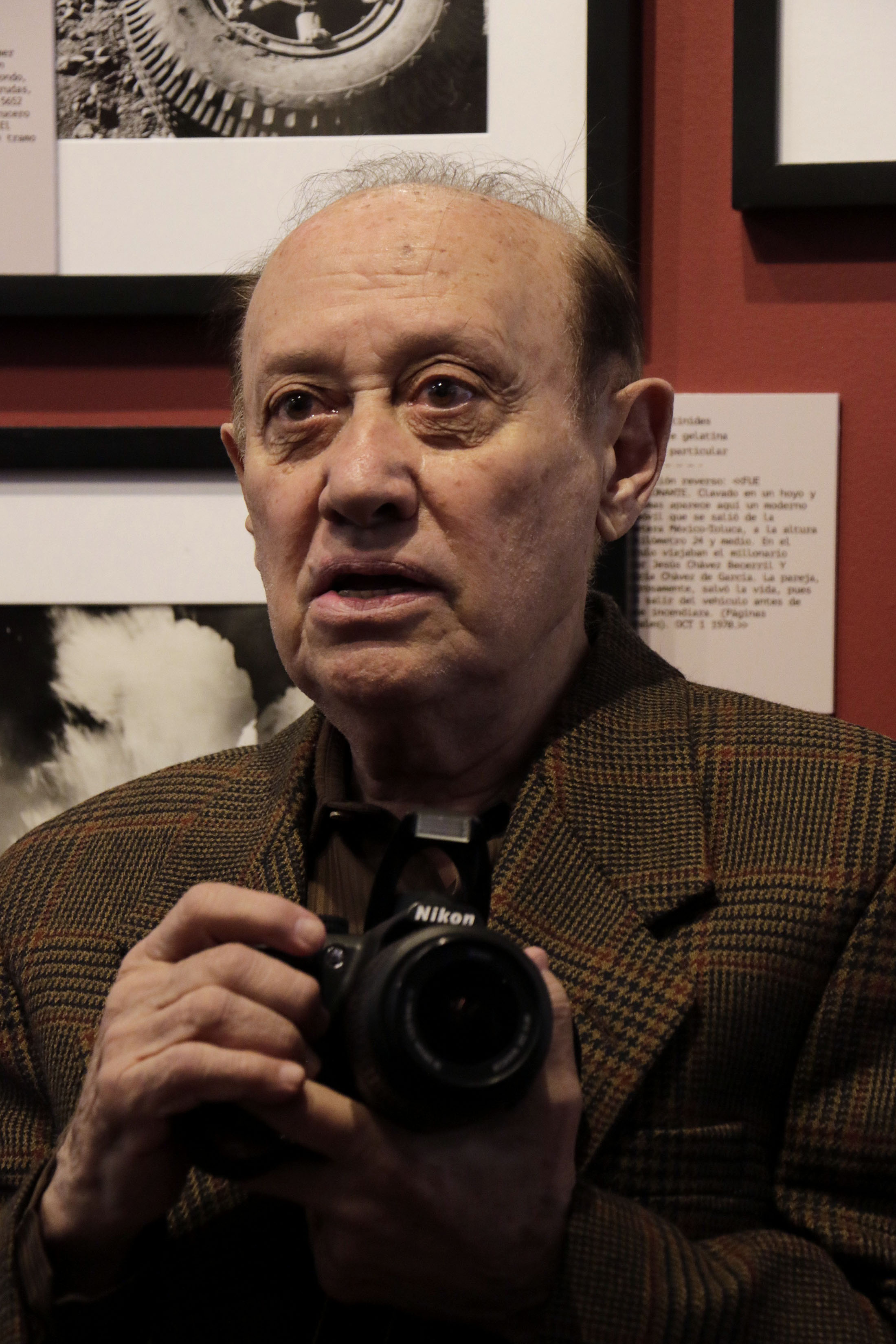 Photojournalist Enrique Metinides at a photo show in Mexico City. Wednesday, 5 April, 2017. Picture by Tania Victoria / Secretaría de Cultura CDMX.